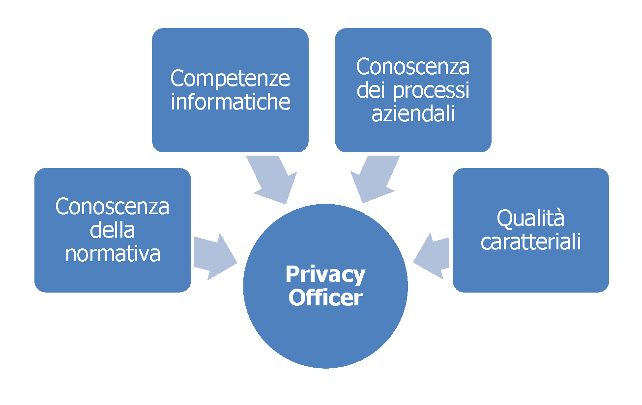 Skills which a professional privacy officer should have